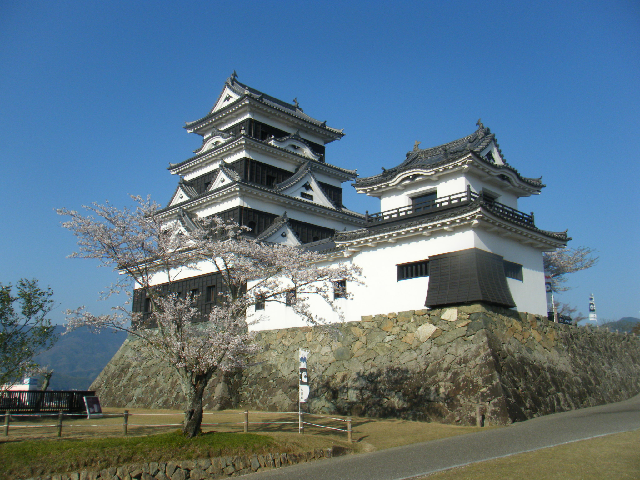 Ozu castle1